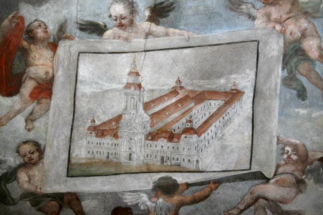 The ideal plan of the Saint Gotthard Abbey